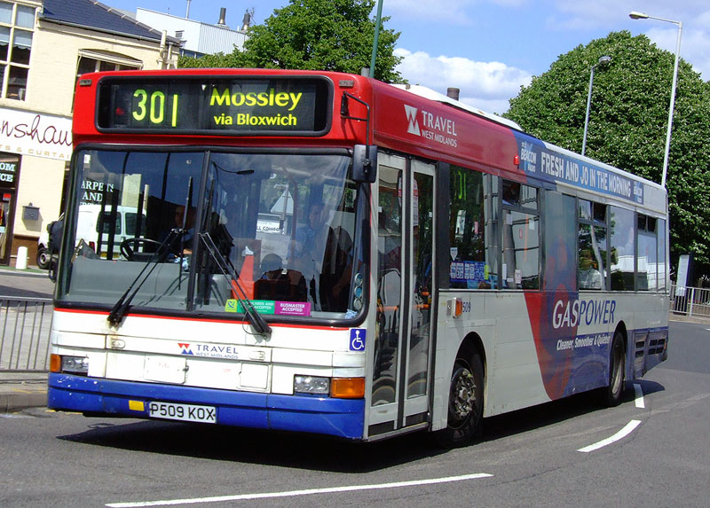 A Travel West Midlands bus in Walsall on route 301. It is a Volvo B10L with Alexander Ultra body, registration mark P509 KOX, fleet number 1509. When this photo was taken the bus was CNG-fuelled.